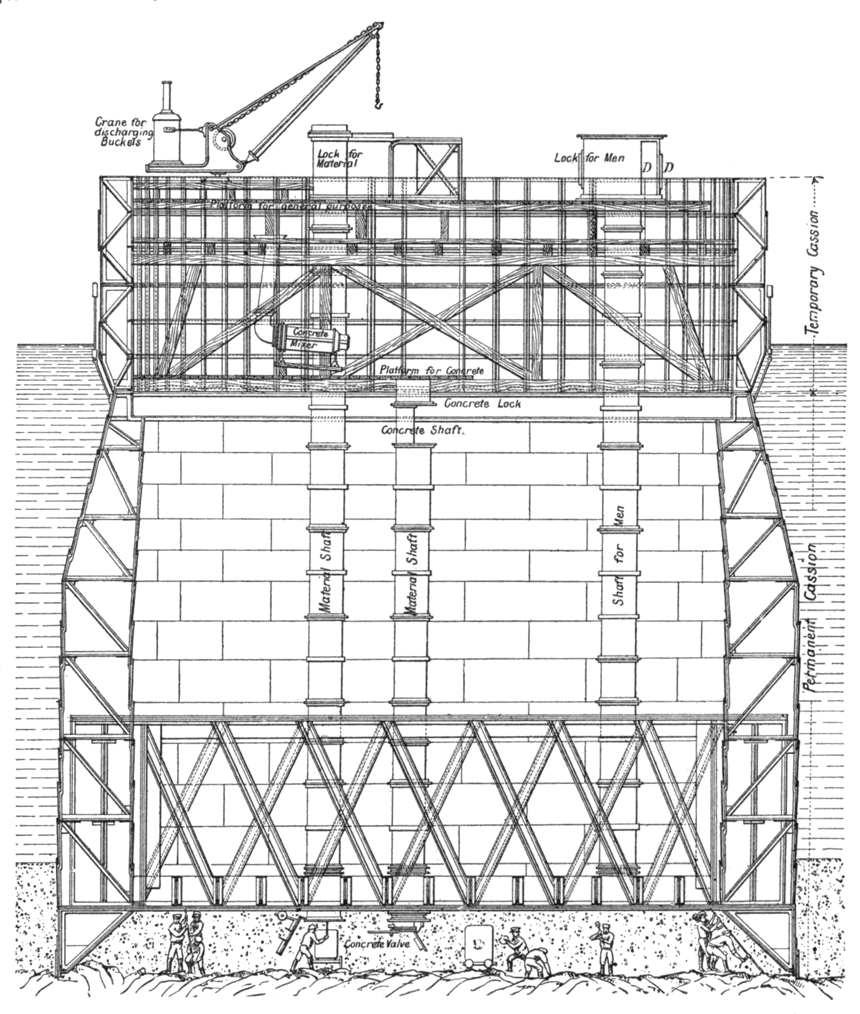 Forth Bridge (1890) Fig. 51, Page 28